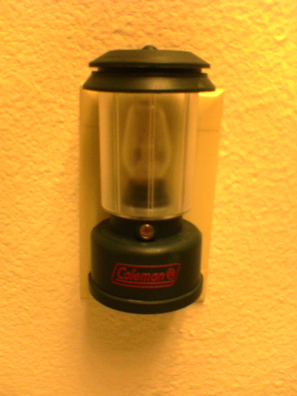 Photo of Coleman lantern style nightlight taken 12/30/05. Photographer releases all rights worldwide.